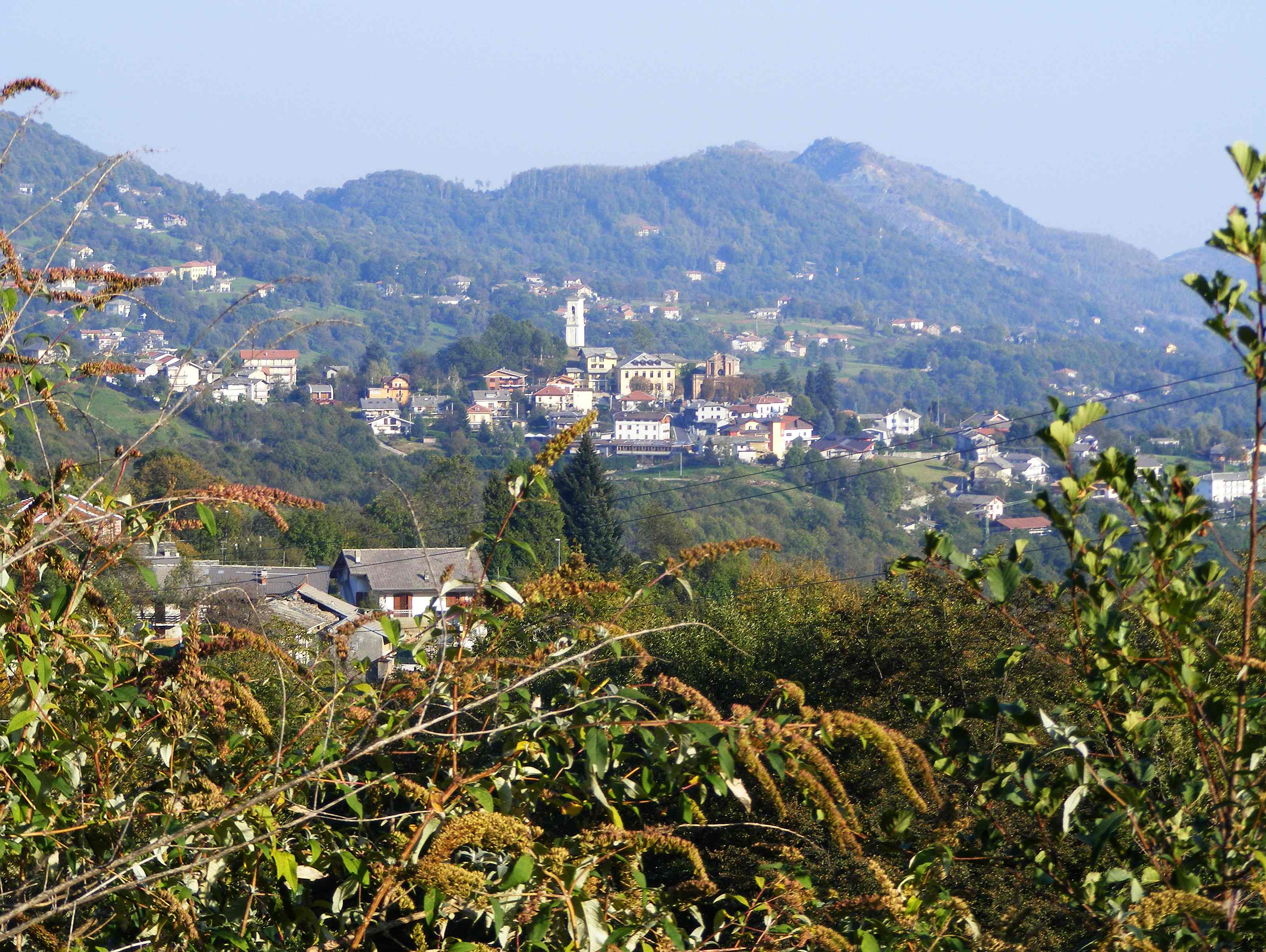 Coassolo (TO, Italy) as seen from Monastero di Lanzo